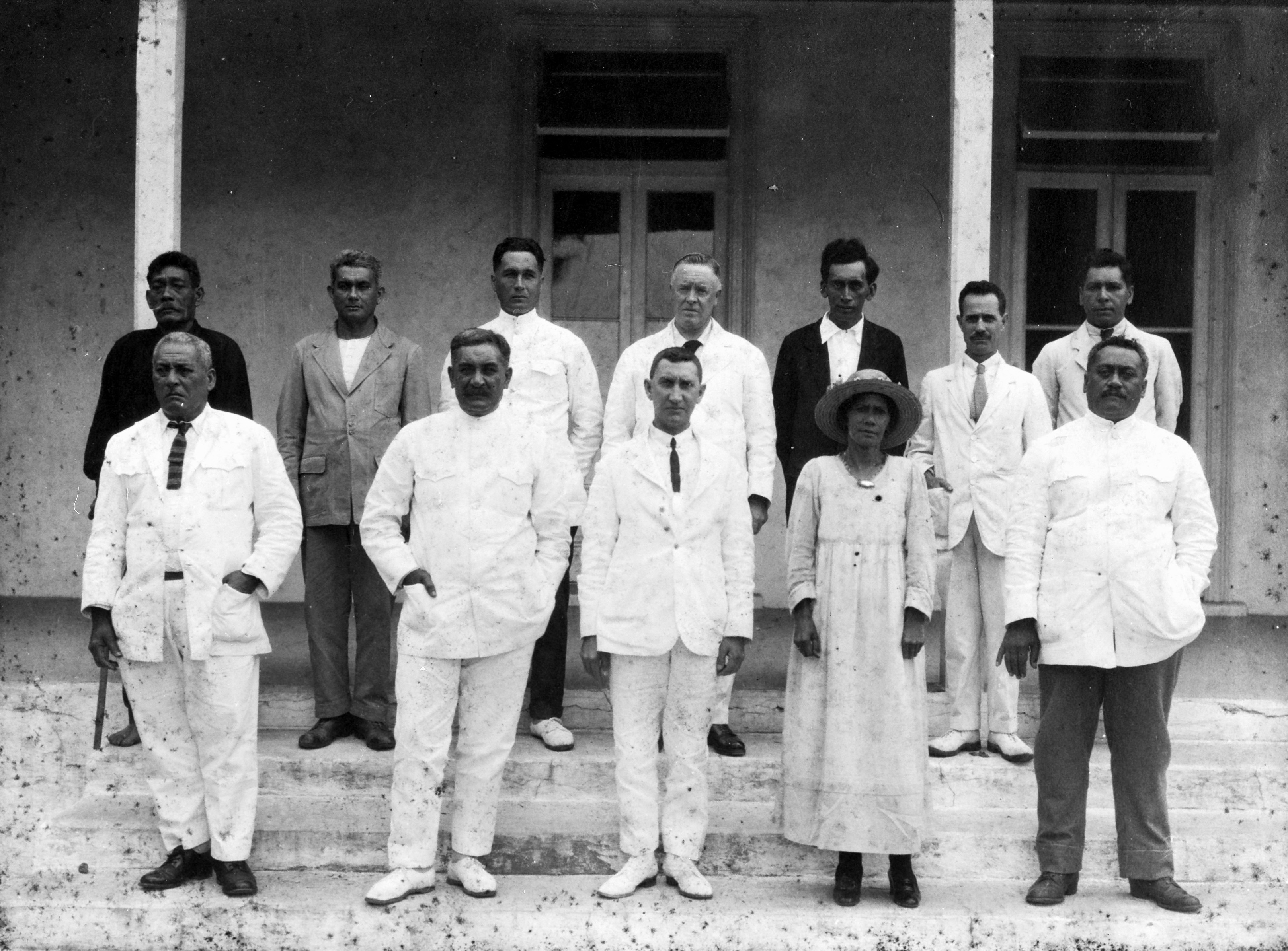 Shows some members of Island Council of Rarotonga for period March 1923 to July 1925. They are: Back (from left) Raitia Tepuretu (Tom Davis step father); Kutimani; C Tau. Cowan; W G Taylor (European representative); Paera; Stephen Savage (Clerk to Council); Geoffrey Tiavare Henry (interpreter, father of Albert Henry); Front row: Kainuku Parapu Ariki; Makea Nui Tinirau Ariki (Te Au o Tonga - Rarotonga); Judge Ayson (Resident Commissioner); Makea Karika Takau Ariki (Te Au o Tonga – Rarotonga); Tinomana Tuoro Ariki (Puaikura).